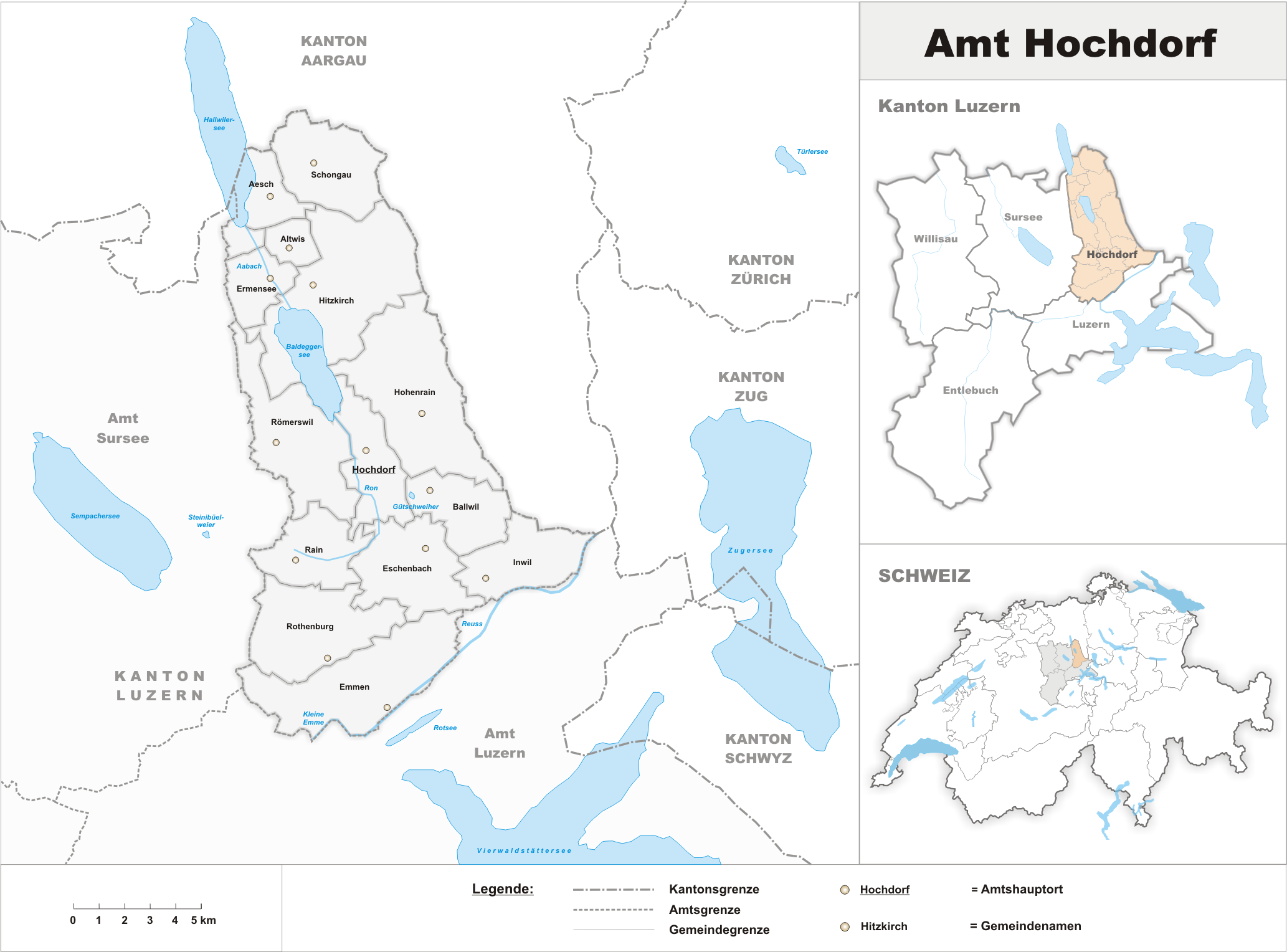 Municipalities in the district of Hochdorf to 2009